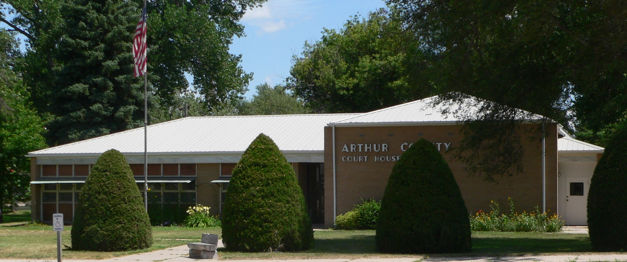 Arthur County courthouse in Arthur, Nebraska; seen from the north. According to a plaque inside (photo uploaded), the courthouse was built in 1961.